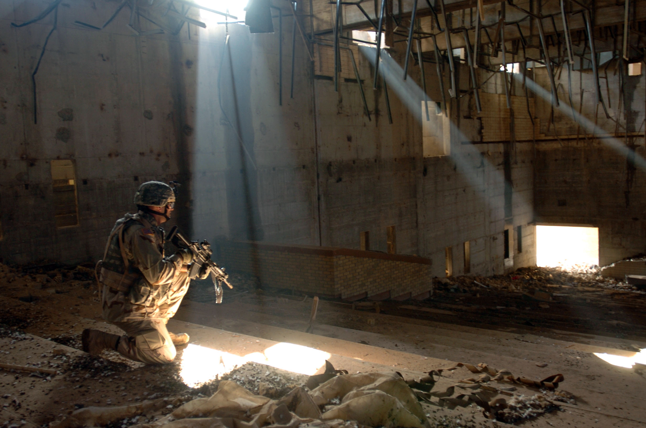 Hateen, Iraq (Feb. 6, 2006) - U.S. Army 2nd Lt. Amos Fox secures a building in a weapons compound in Hateen, Iraq, while providing security for the Ashurah pilgrims that will be passing through to Karbala. Fox is a fire support officer for Bravo Company, 2nd Battalion, 8th Infantry Regiment, 2nd Brigade Combat Team, 4th Infantry Division. U.S. Navy photo by Photographer's Mate 2nd Class Katrina Beeler (RELEASED)